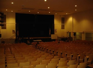 This auditorium is where assemblies, large events, and performances are held.